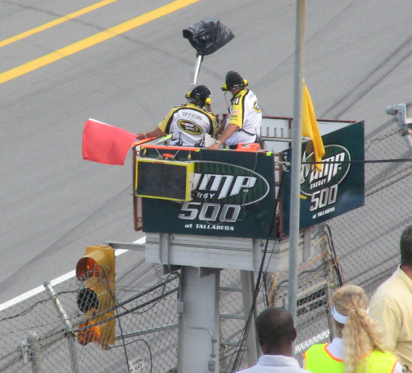 A red flag stopping the action at the 2008 Amp 500 NASCAR race at Talladega Superspeedway